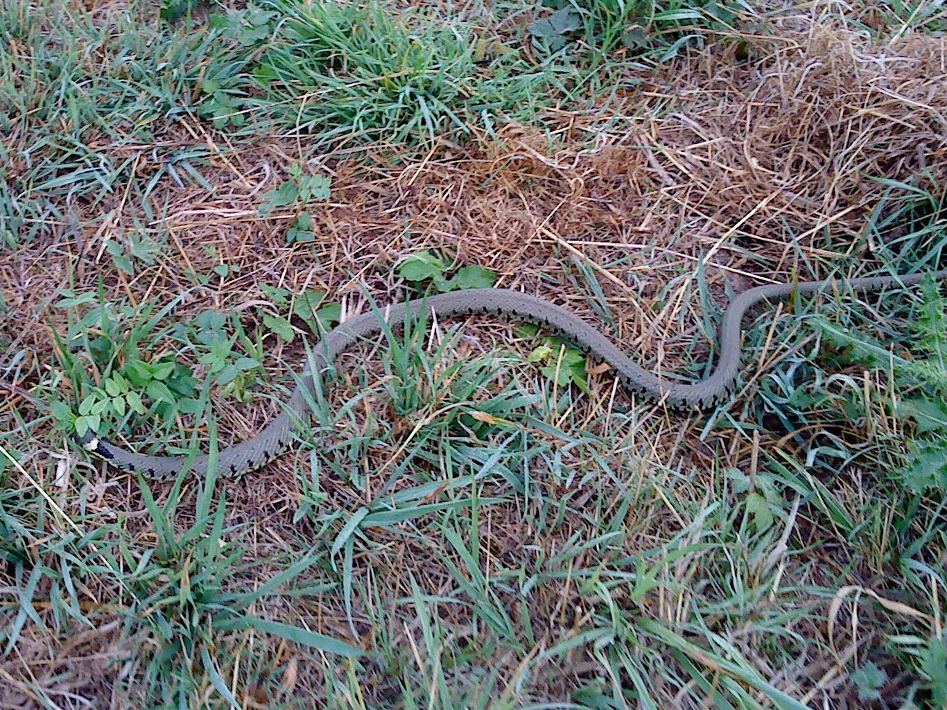 Grass snake